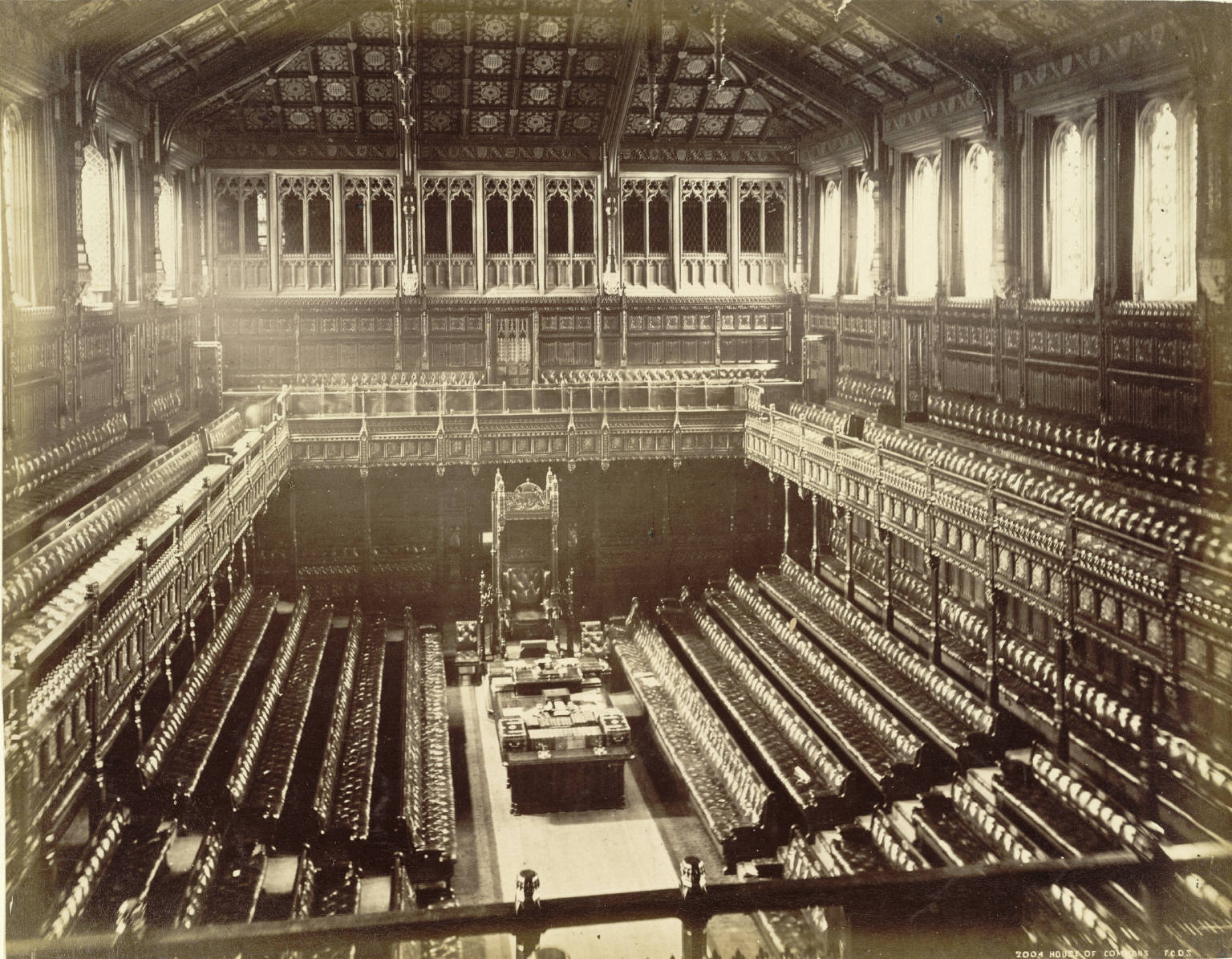 House of Commons, albumen print showing the original Commons Chamber of the Palace of Westminster in London, England; photograph taken from the gallery on the south side of the chamber.